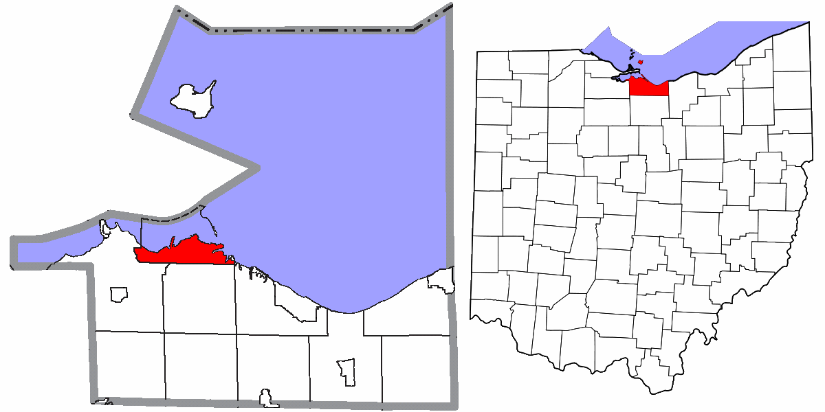 Map highlighting City of Sandusky, Erie County, Ohio, United States.